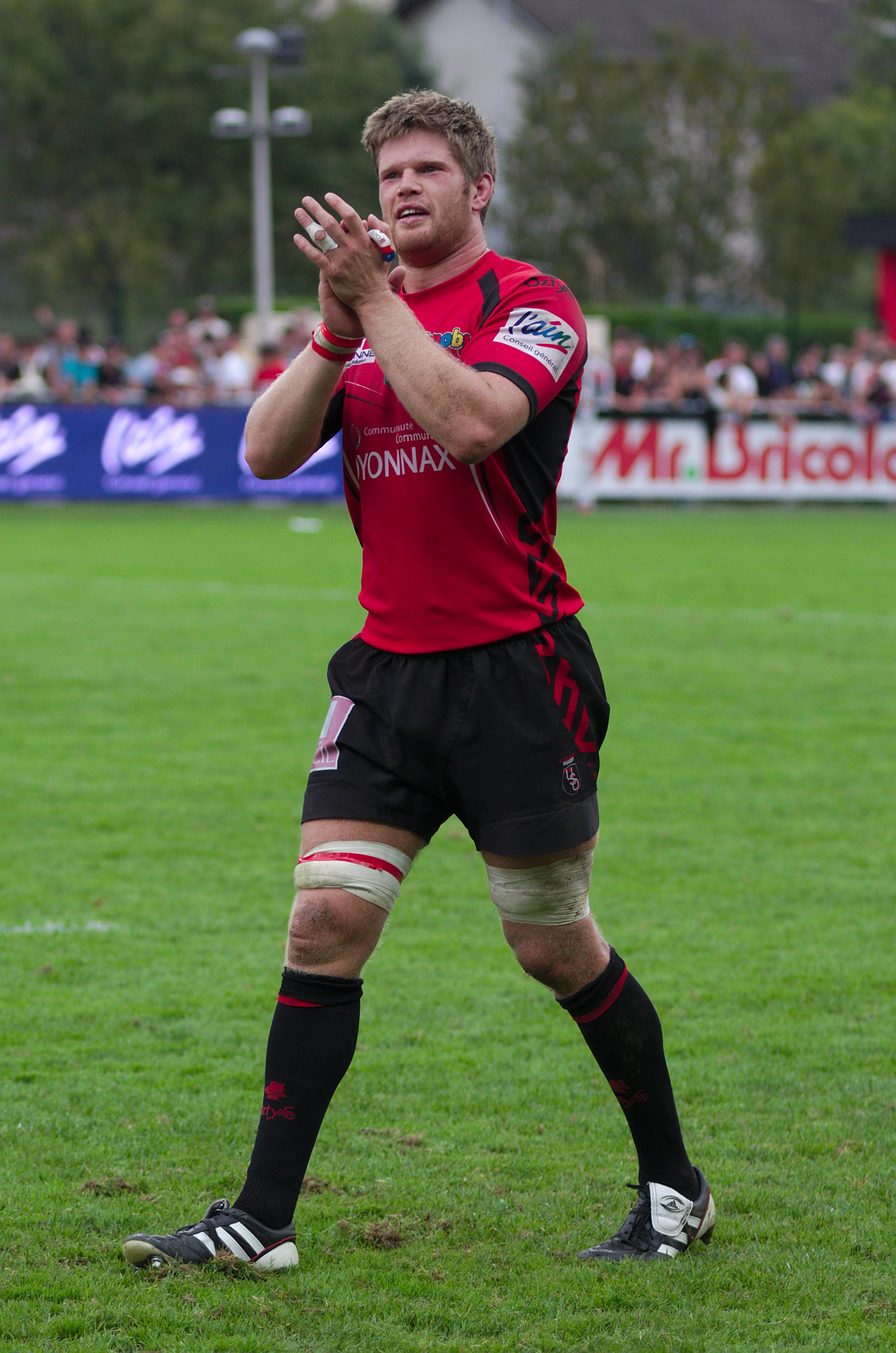 USO - RCT - 28-09-2013 - Stade Mathon - Scott Newlands